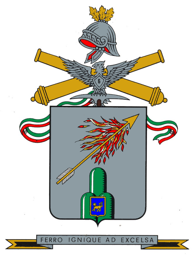 Coat of Arms of the 6º Mountain Artillery Regiment (year 1974); Italian Army.